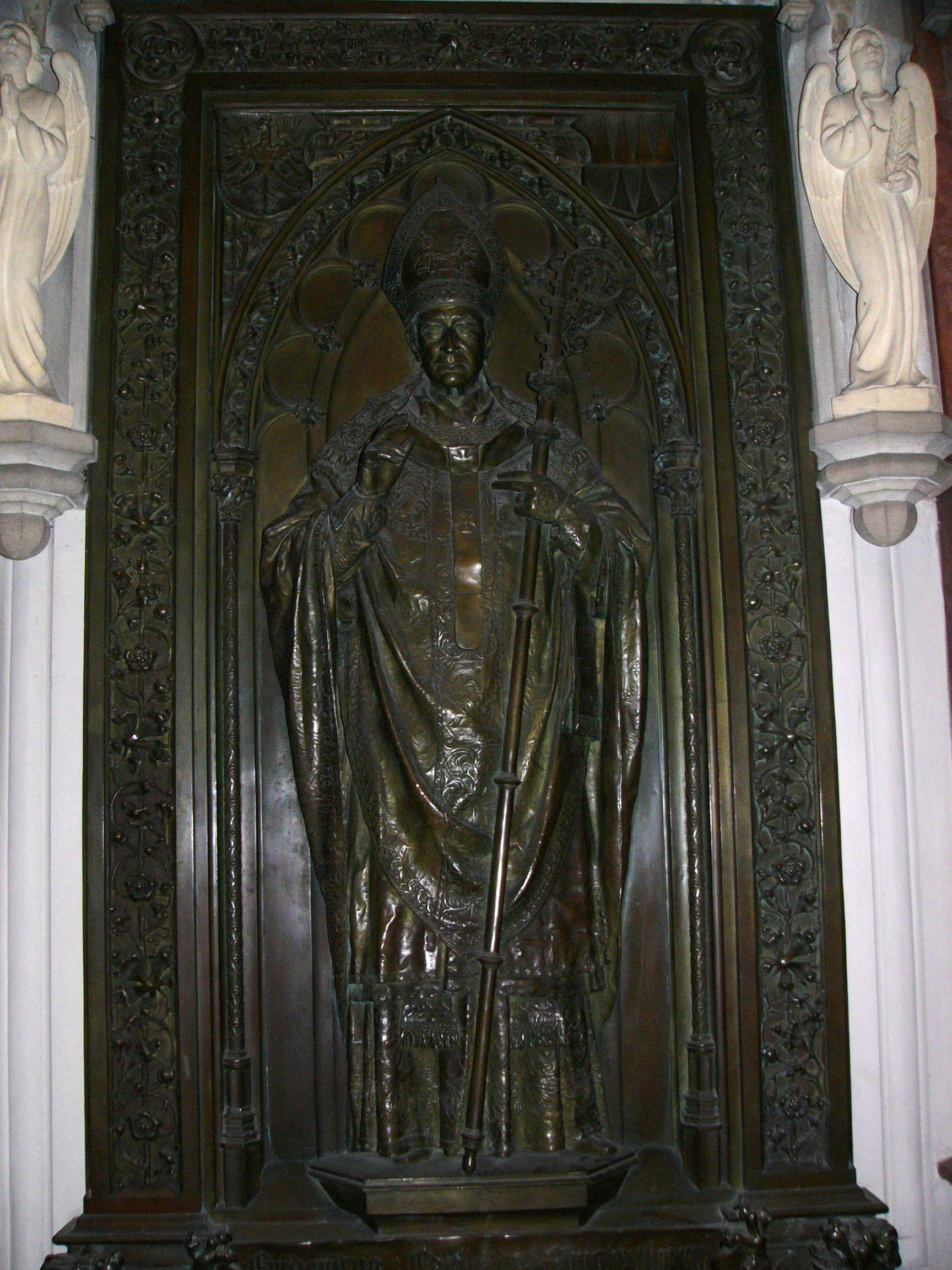 Tombstone of Bedřich z Fürstenberka in St. Wenceslaus cathedral in Olomouc (Czech Republic).